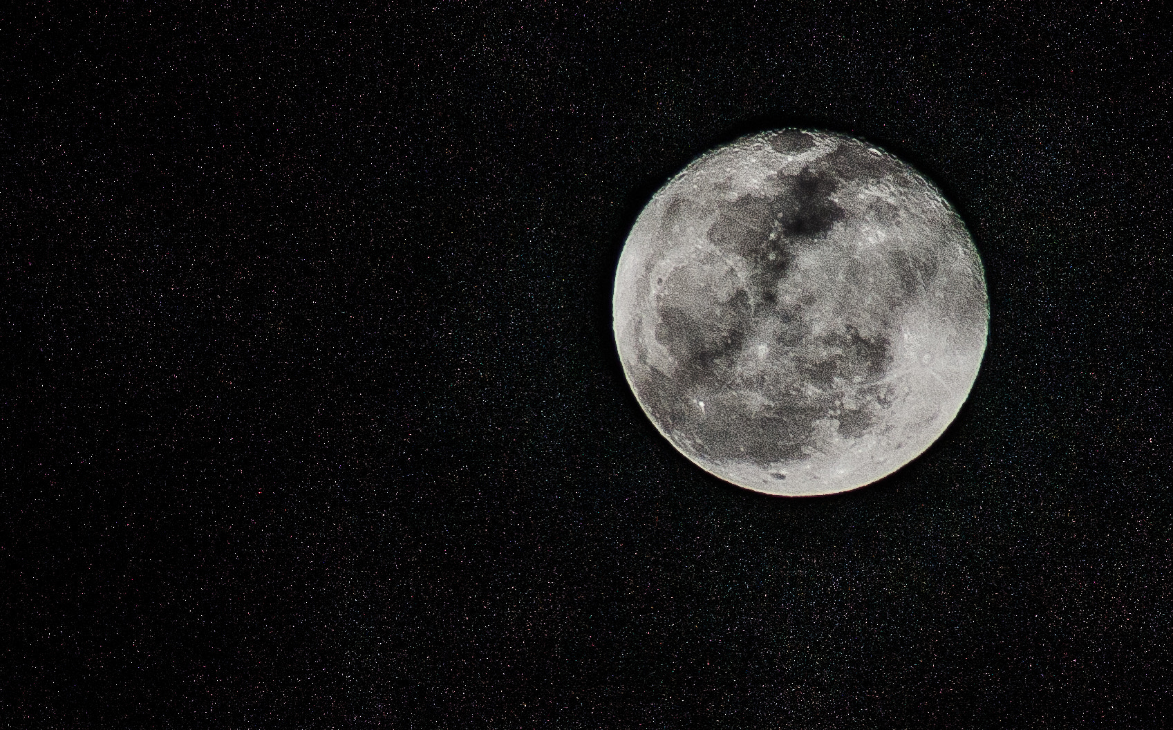 500px provided description: Full moon and stars. shot with a quantaray lens I bought at a thrift shop for 20$. [#sky ,#night ,#moon ,#nikon ,#stars ,#seanvaldez]